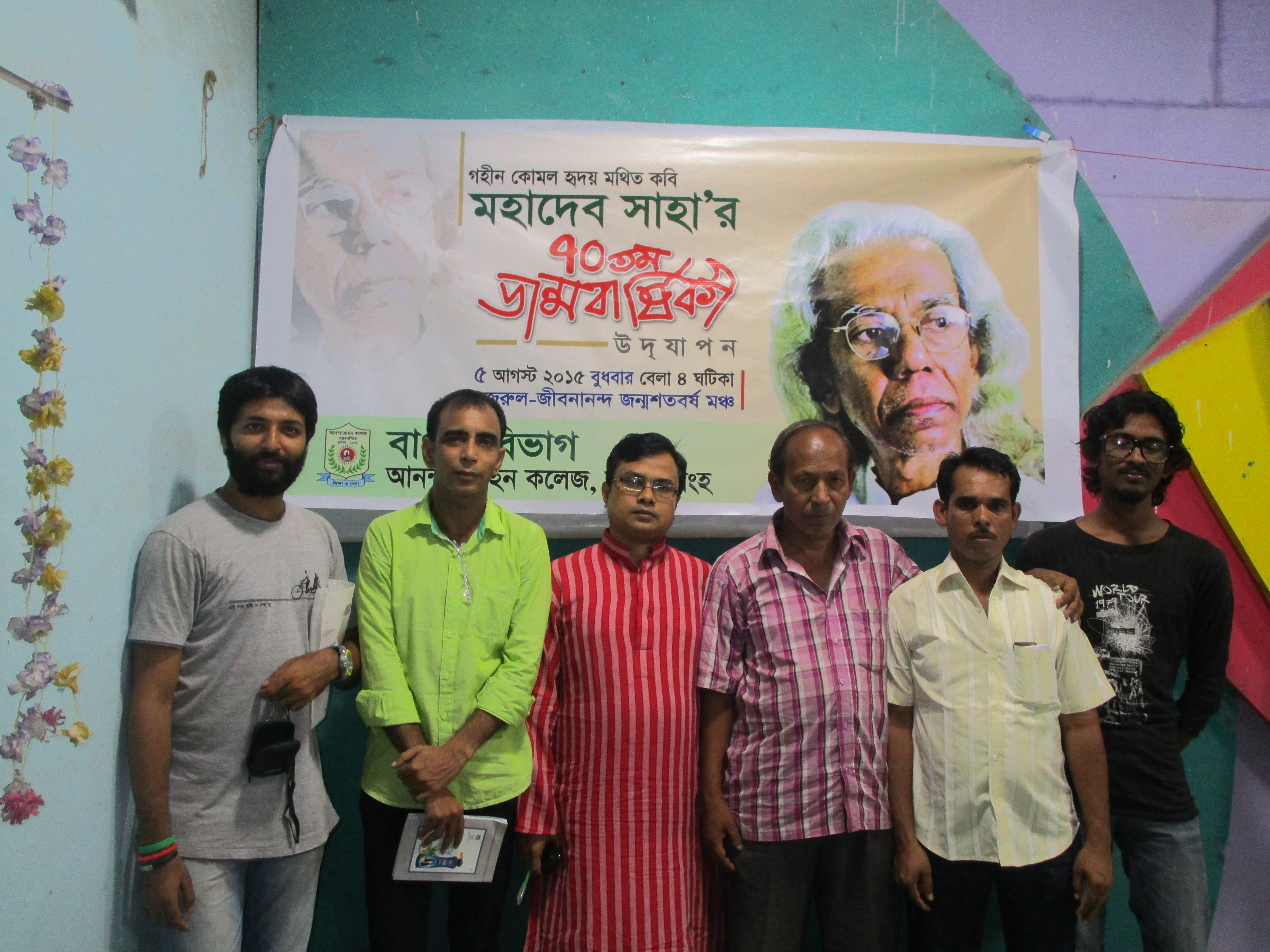 Mahadev Saha 70th birth aniversary at Mymensingh